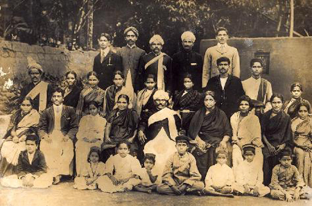 This is a photograph of the kodialguttu joint family who were from the aristocratic Bunt community of southern coastal karnataka ,India.The photograph was taken in 1900 in the city mangalore,India